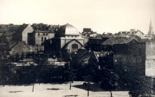 Synagogue of Wilhelmshaven, built in 1915, destroyed in 1938 during Kristalnacht